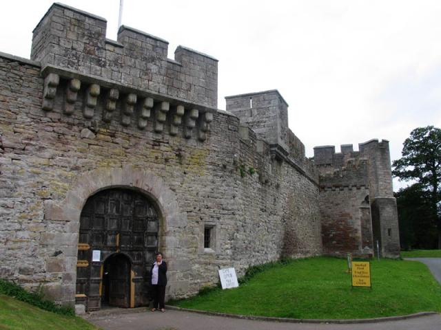 Brougham Hall. This Manor House situated in the south eastern corner of the square, has seen all sorts of troubled times. It is now a craft centre and produces delicious smoked cheese.